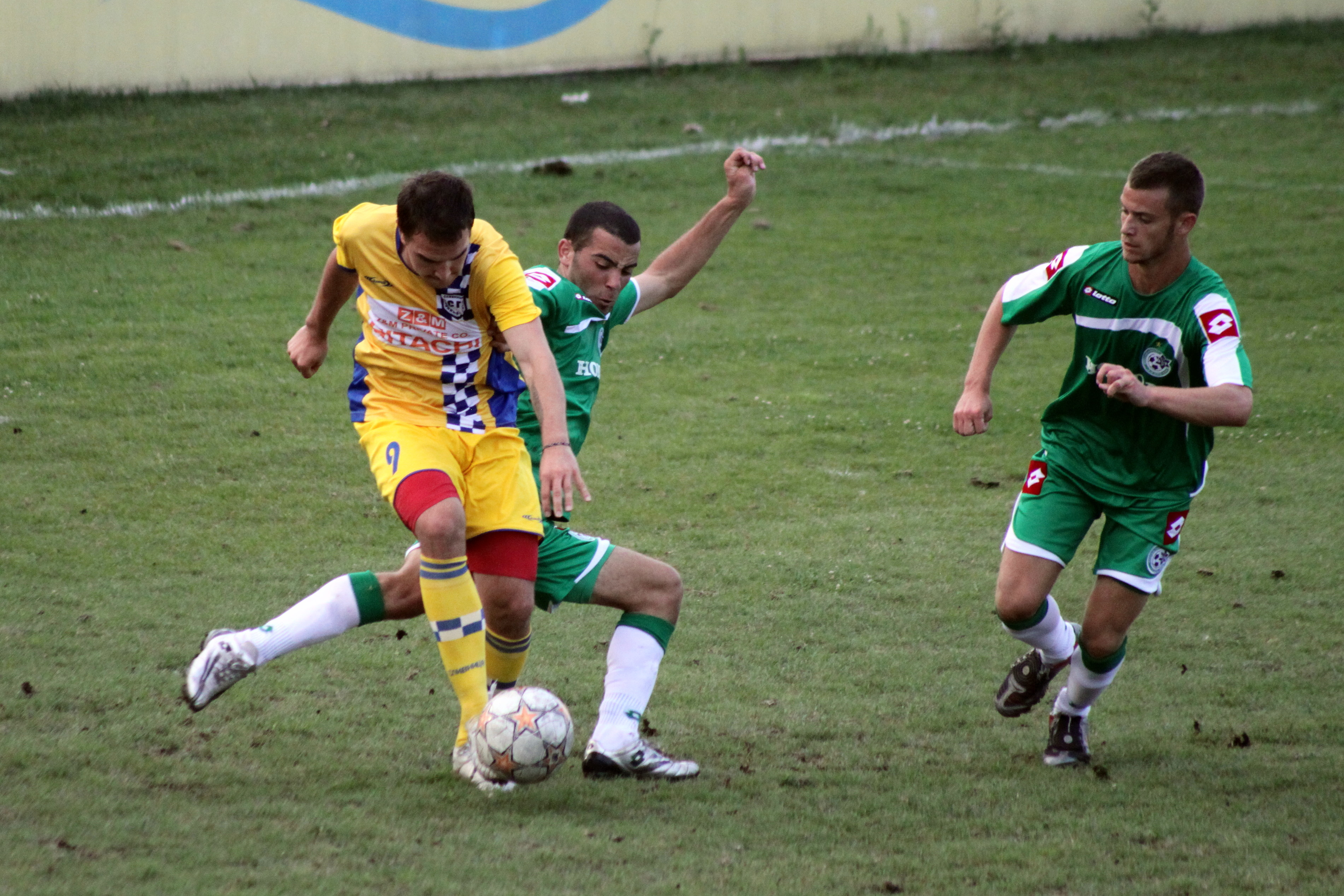 Bulgarian soccer player Julian Kurtelov (in yellow). "Slivnishki geroi" Slivnitsa - Makabi Haifa (19) 3-1.